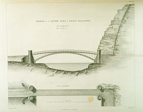 Illustration of Craigellachie Bridge from Atlas to the Life of Thomas Telford, 1838. Taken from here.